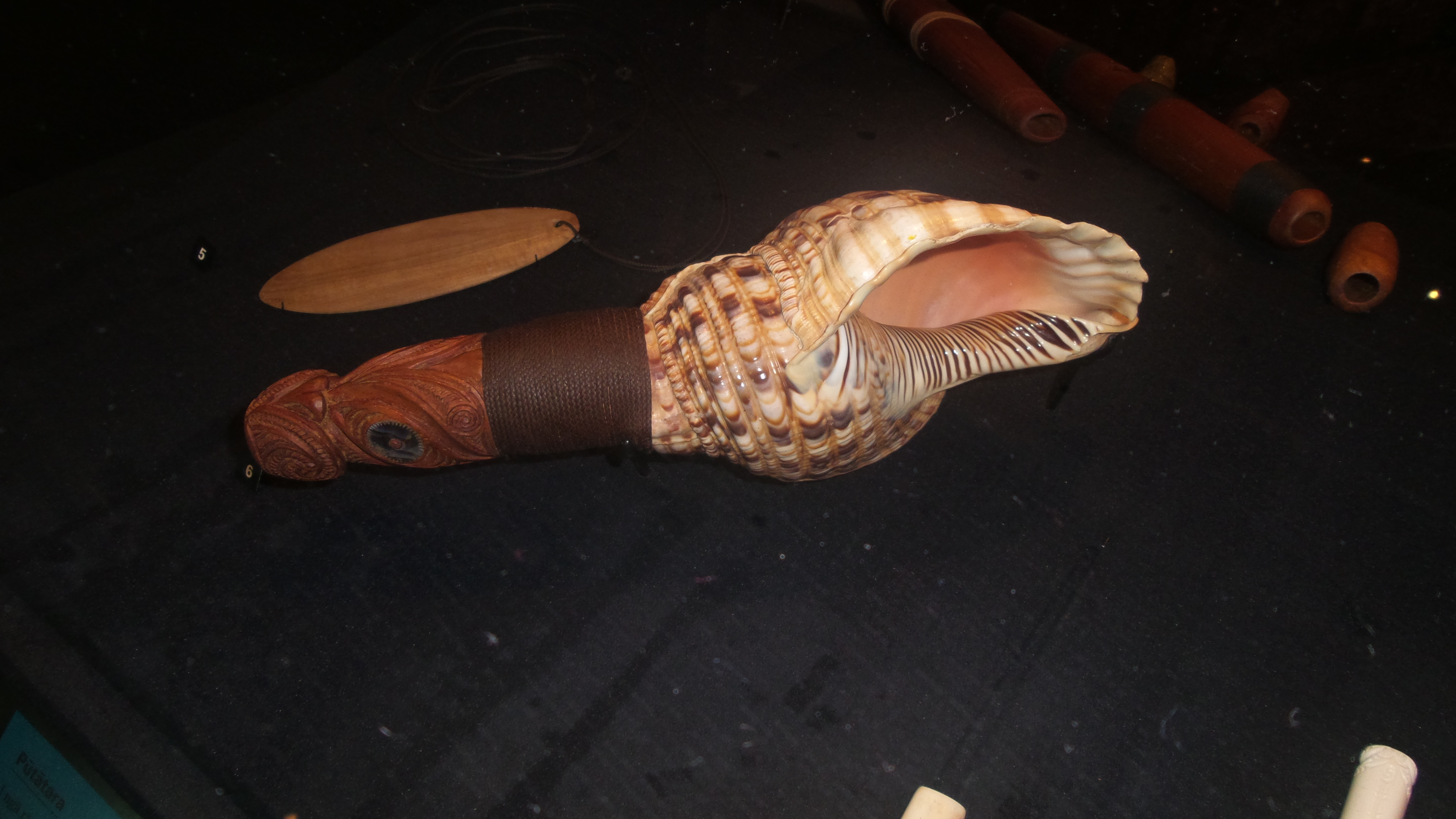 A pūtātara (trumpet) in Te Papa, Museum of New Zealand in Wellington.